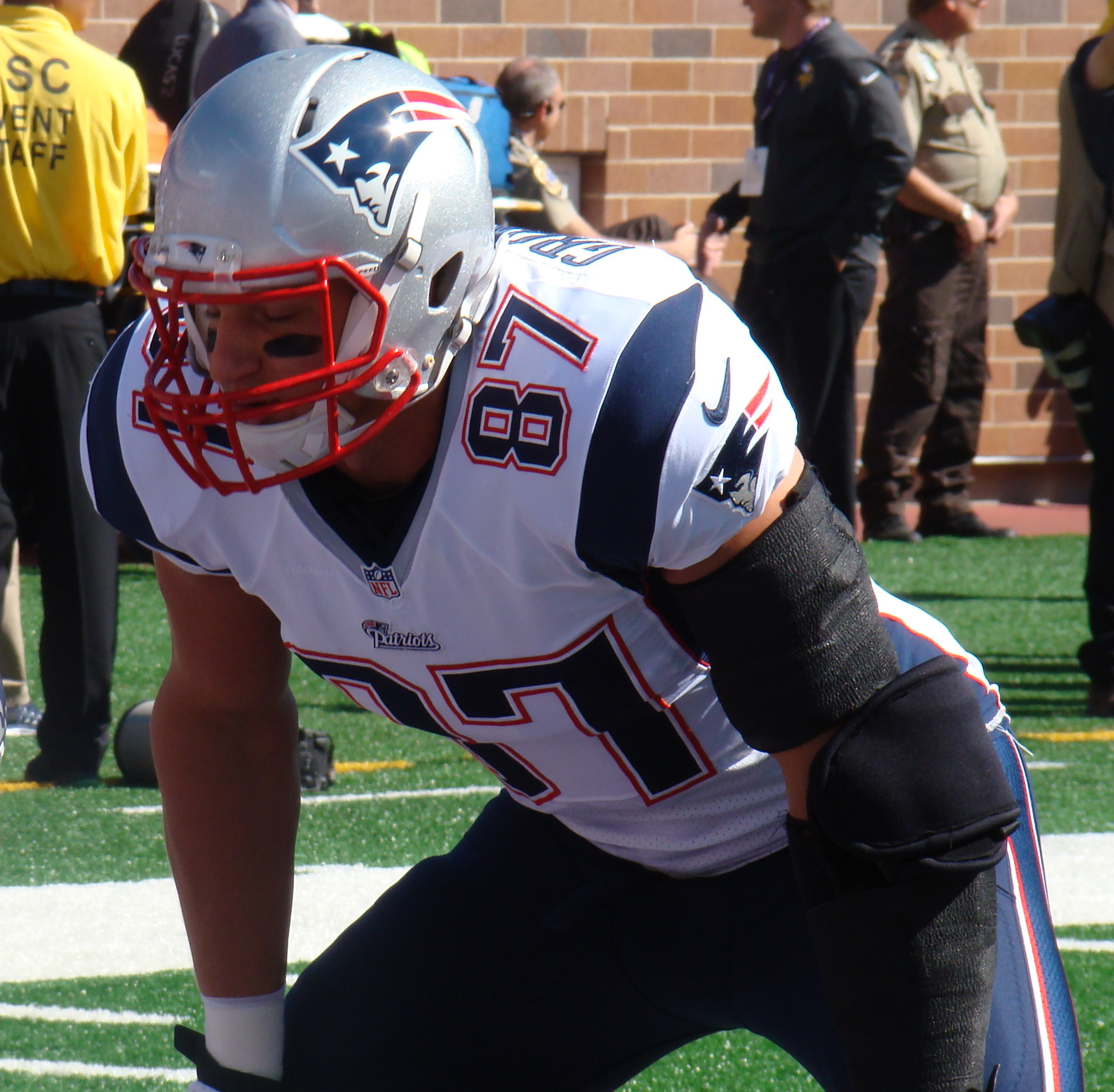 Rob Gronkowski in September 2014.